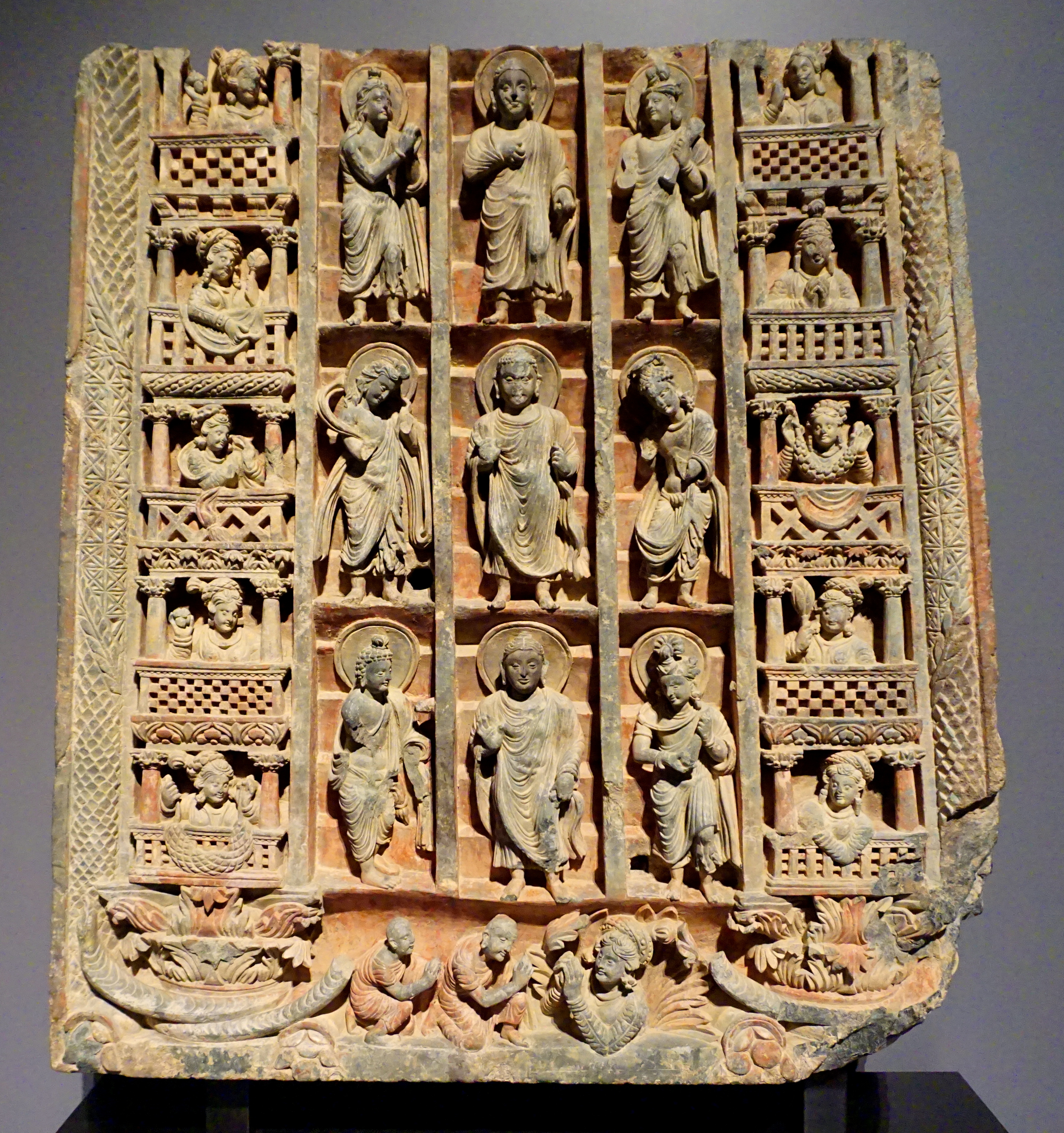 Photograph from the Indian, Chinese and Korean collection at the Asian Civilisations Museum, Singapore